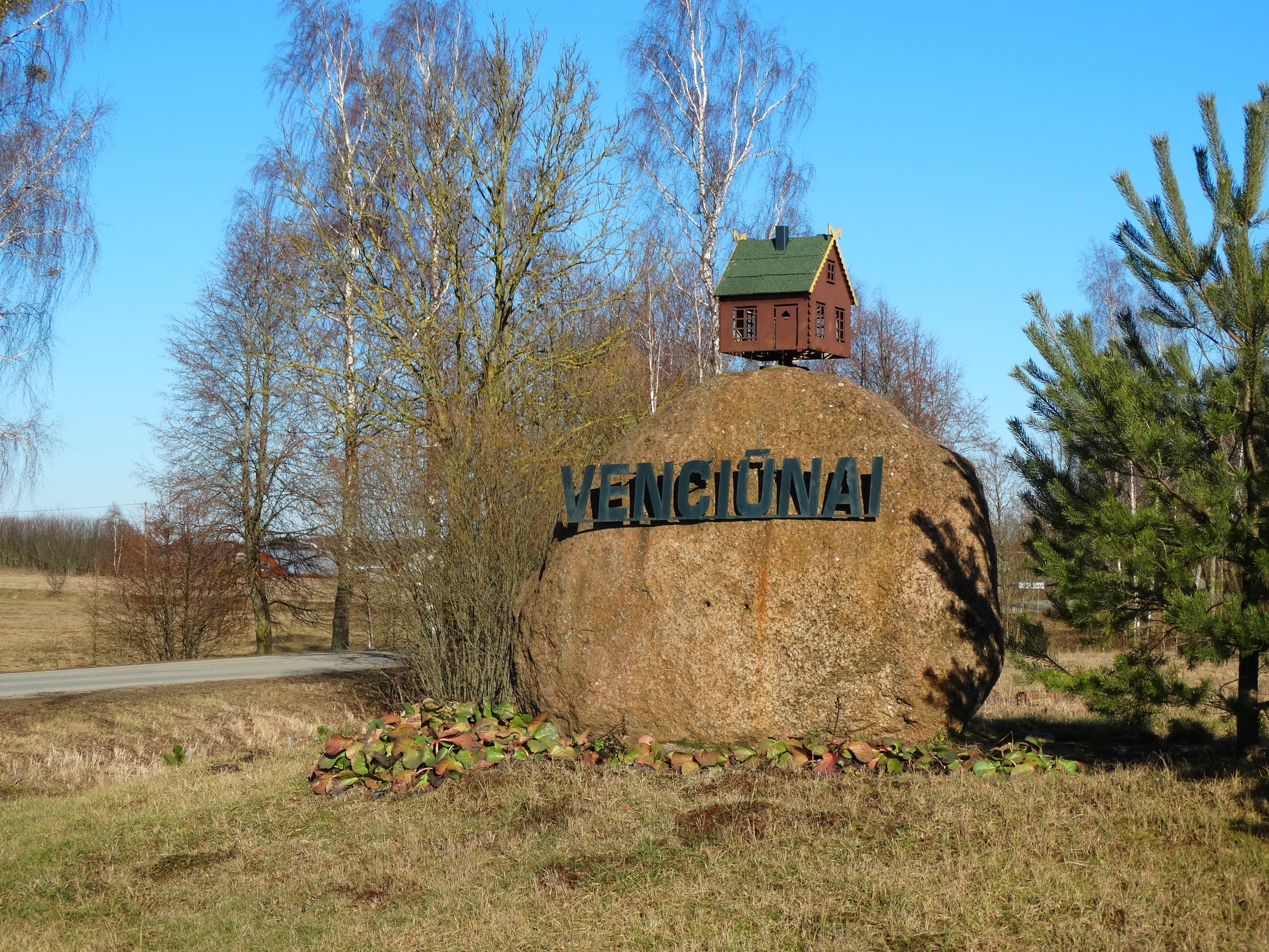 Stone, Venciūnai, Alytus district, Lithuania